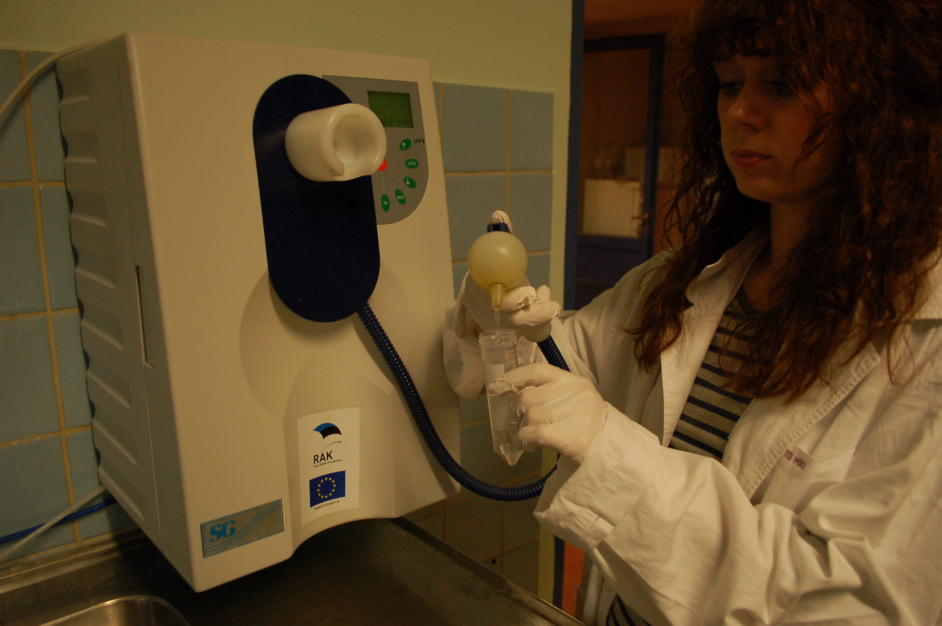 Võimalikult puhaste lahuste saamiseks kasutatakse destilleeritud vett